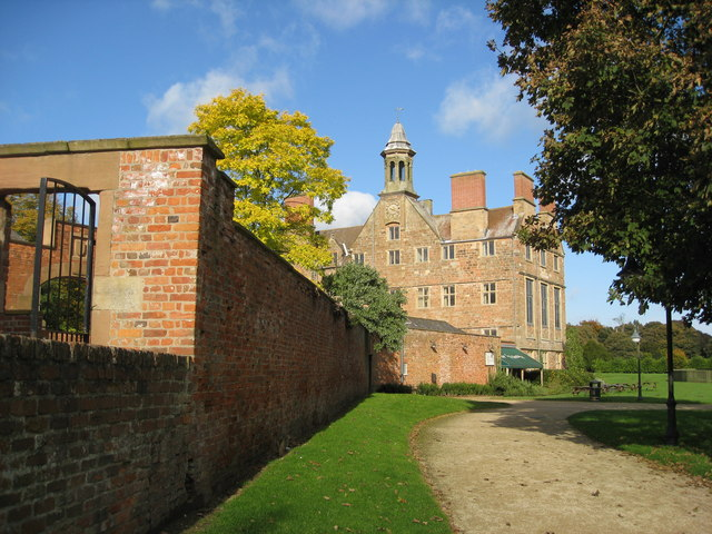 Rufford Abbey - Rear View